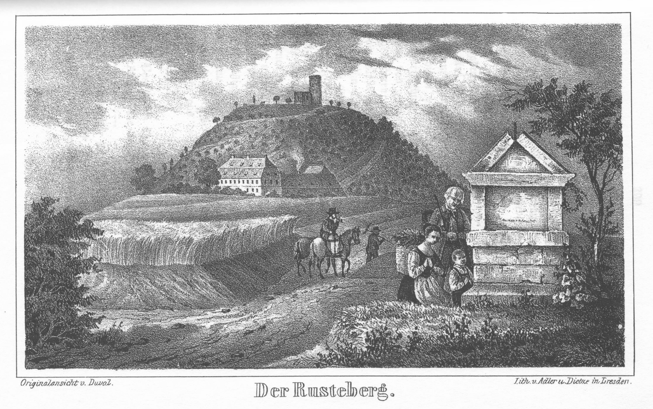 A view of Rusteberg castle.